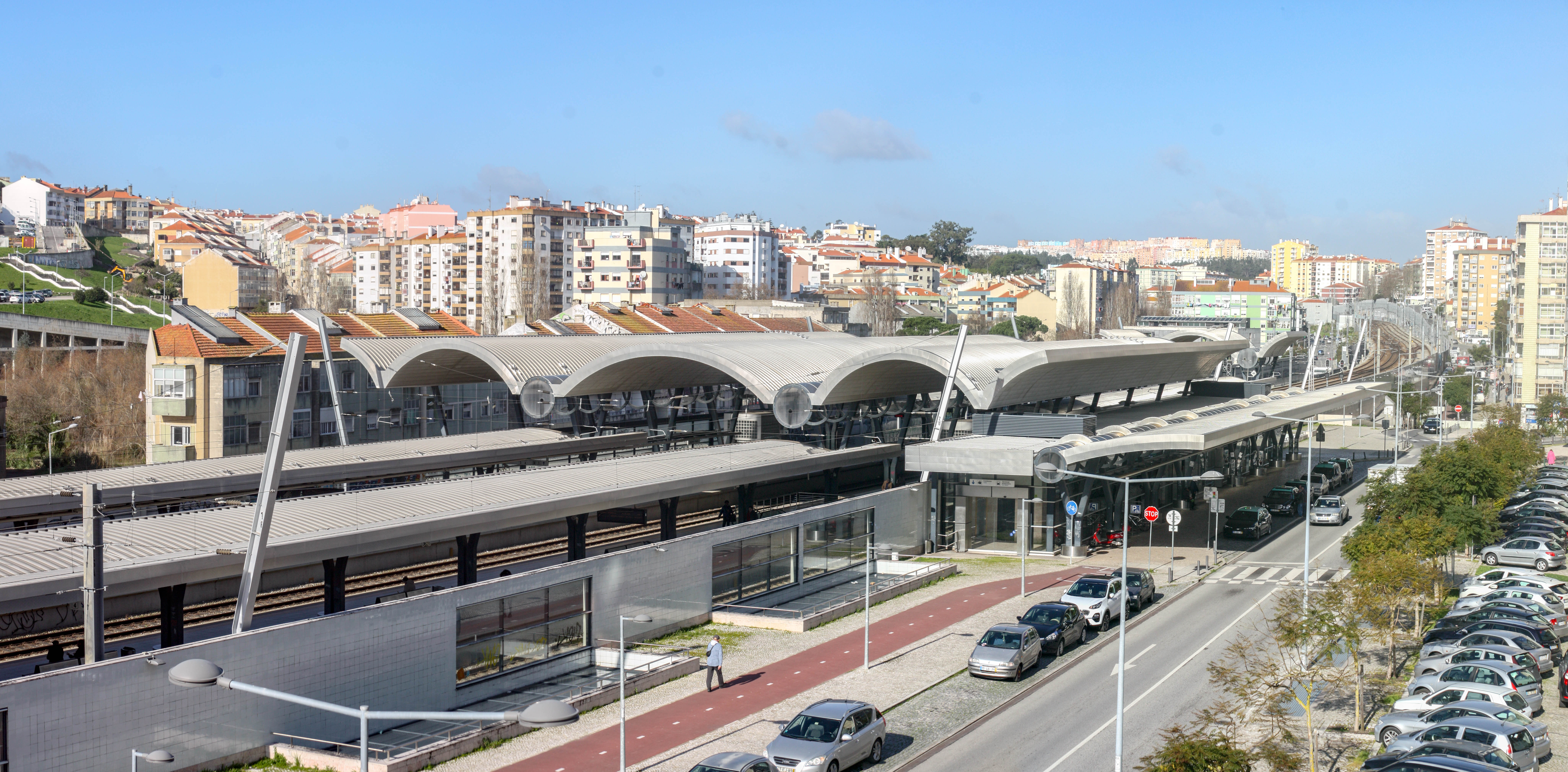 View of the city and the train station of Agualva-Cacém.